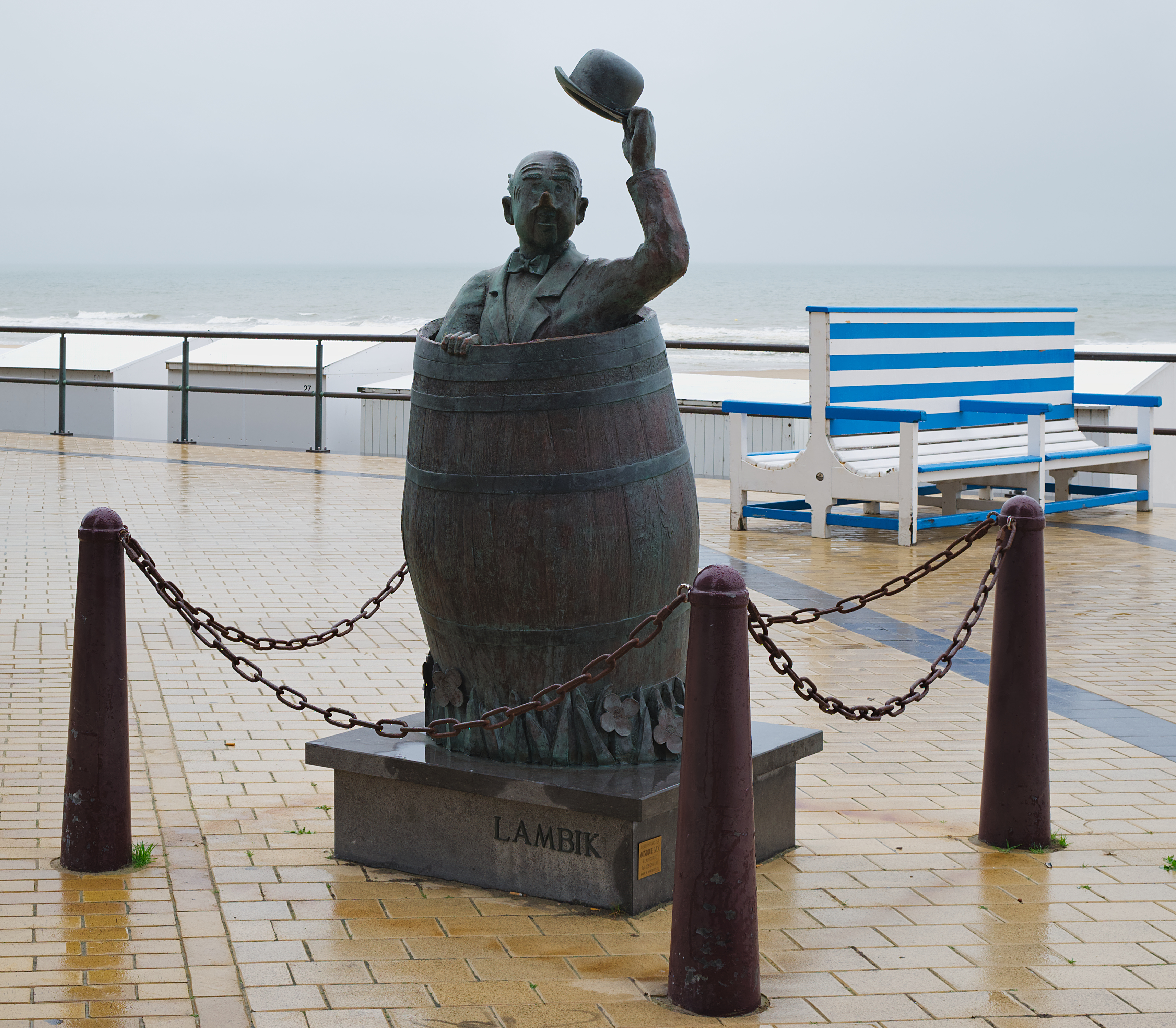 Statue of Lambik on Zeedijk, Middelkerke